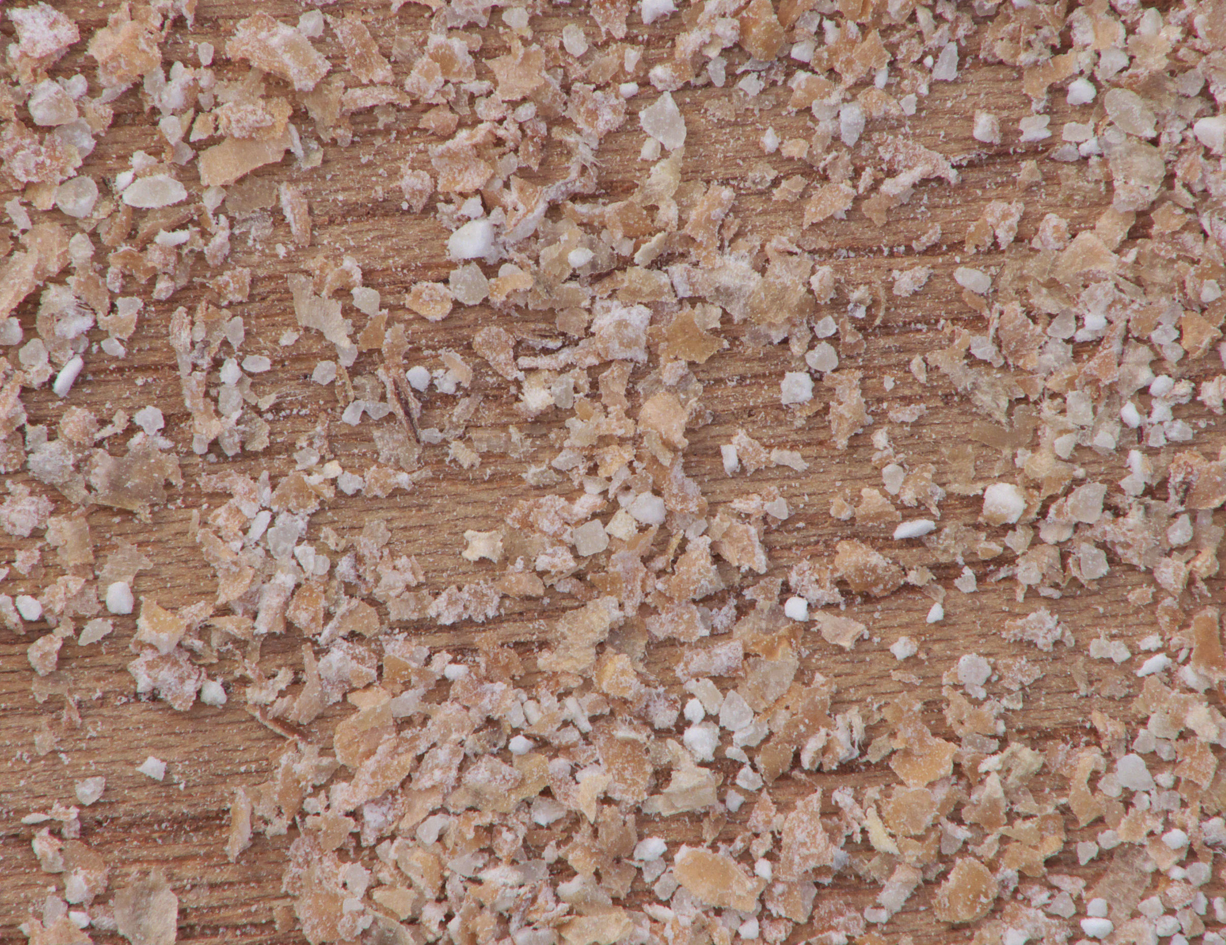 Wheat bran, flour sifted trough 1 mm sief